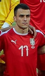 Serbia national football team